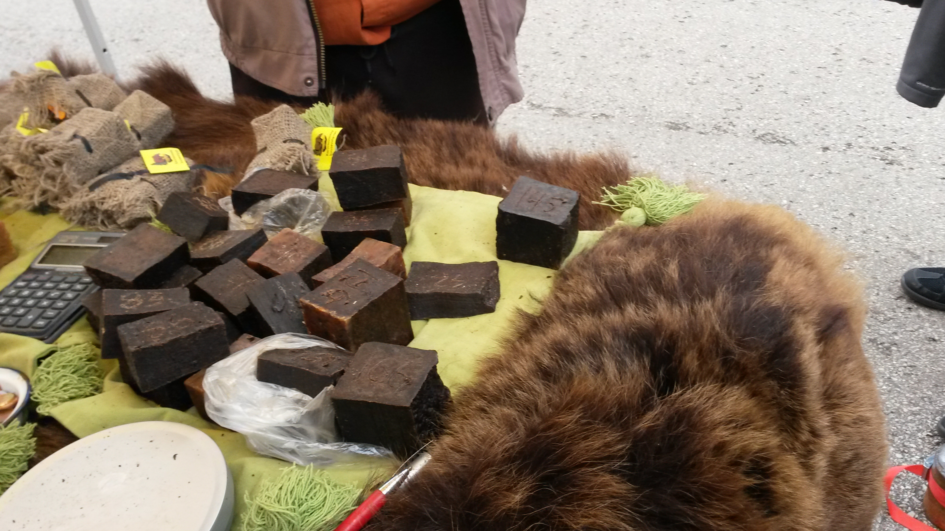 Արջի ճարպից պատրաստւած օճառներ, Էստոնիա Soap made of bear fat in Estonia